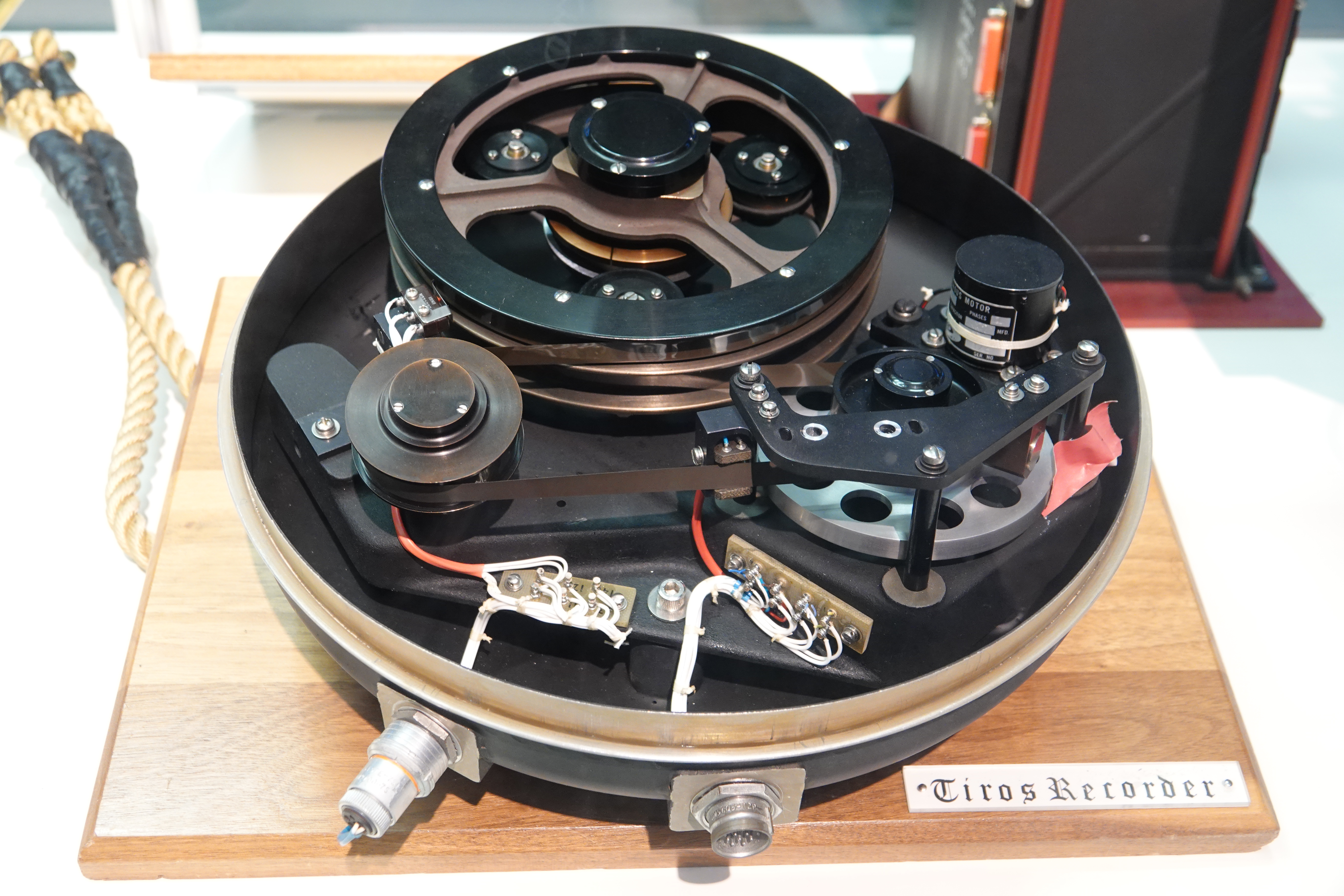 This is an engineering prototype of the magnetic tape data recorder ﬂown on Tiros I, the ﬁrst weather satellite. The instrument was designed to record and then play back the first television images from space. Picture taken at the National Air and Space Museum's Steven F. Udvar-Hazy Center in Chantilly, Virginia, USA. Gift of Lockheed Martin